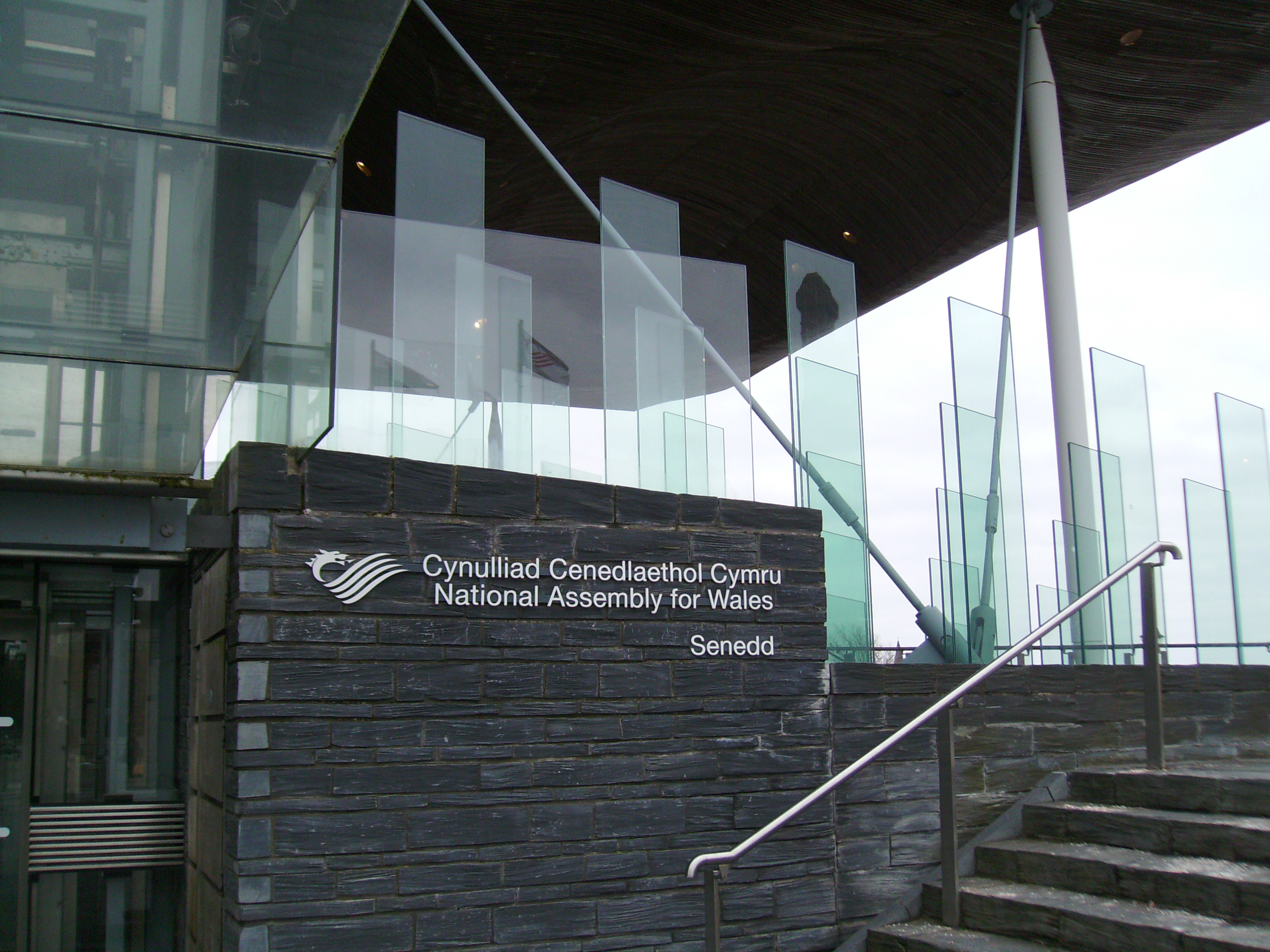 Senedd, Cardiff Bay.